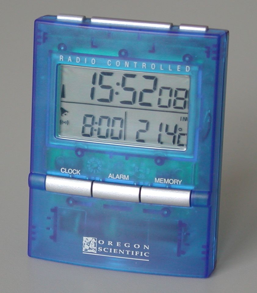 Radio controlled Clock